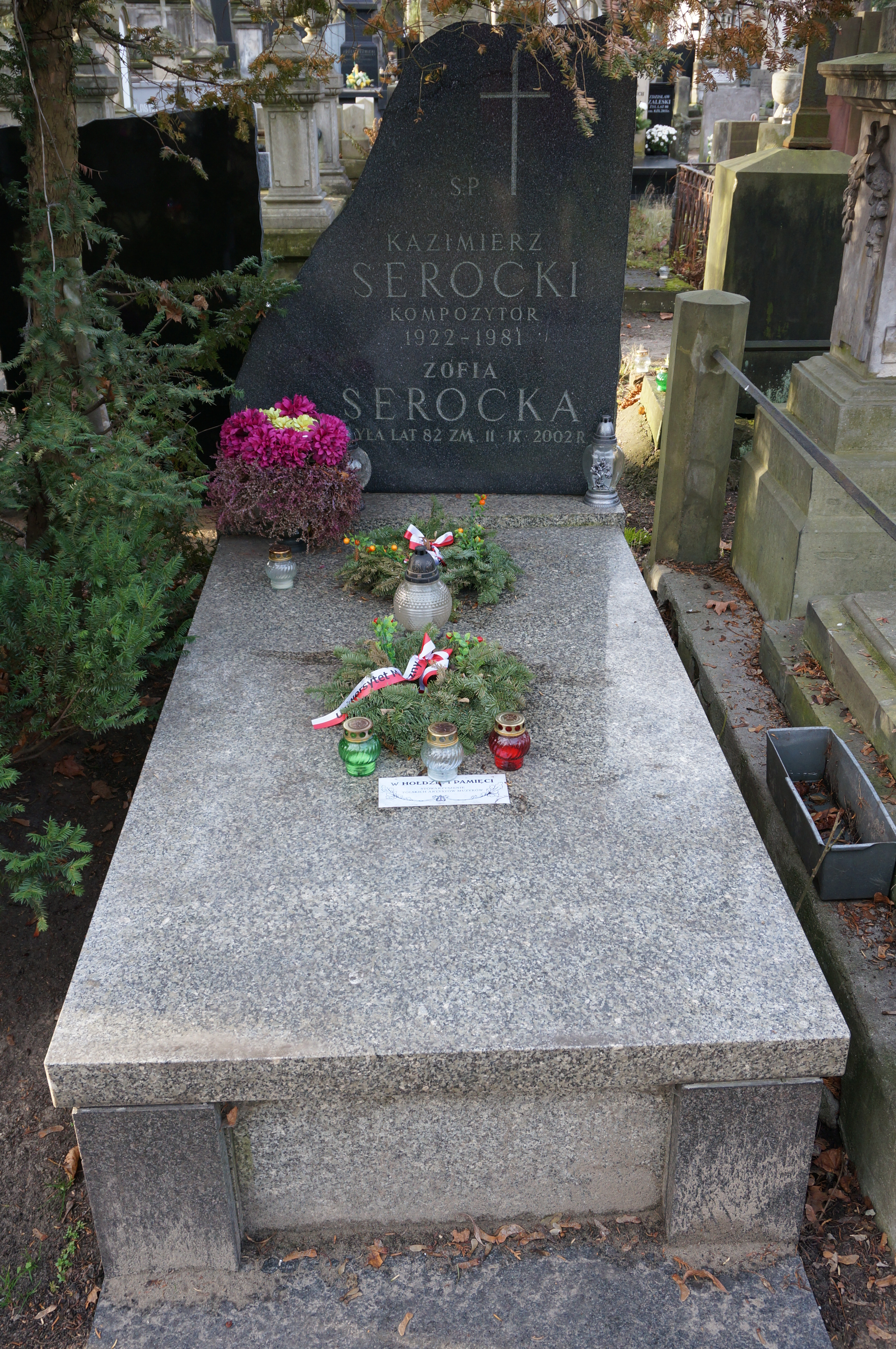 The grave of Kazimierz Serocki at the Powązki Cemetery (section 1, row 1, grave 25)